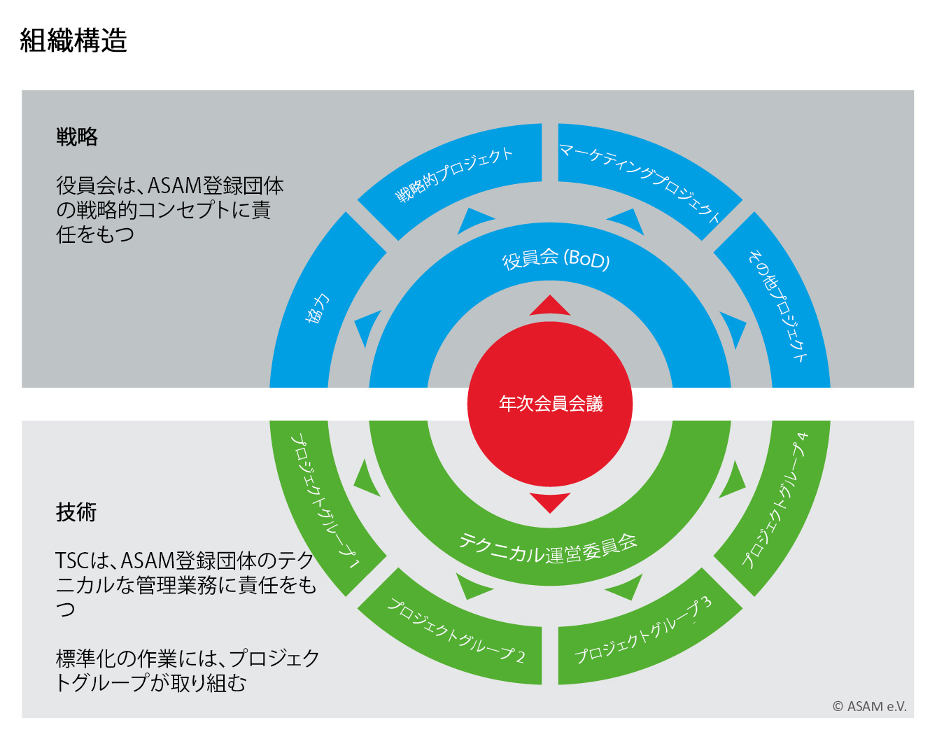 Organizational Structure of ASAM e.V.